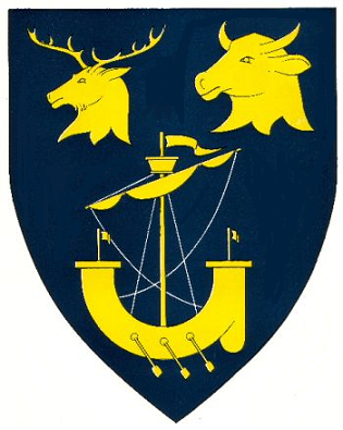 Seal of Inverness County Council, Scotland. According to Fox-Davies's Book of Public Arms (1894): Inverness-shire "Has no armorial bearings. The seal of the County Council displays upon a trefoil a stag's head and a bull's head, both erased, and a lymphad. Motto — Air son math na siorrachd. Legend — 'Seal of the County Council of Inverness-shire'."